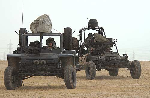 U.S. Navy SEALs (Sea, Air, Land) operate Desert Patrol Vehicles on a practice range. Navy SEALs are forward deployed in support of Operation Enduring Freedom.